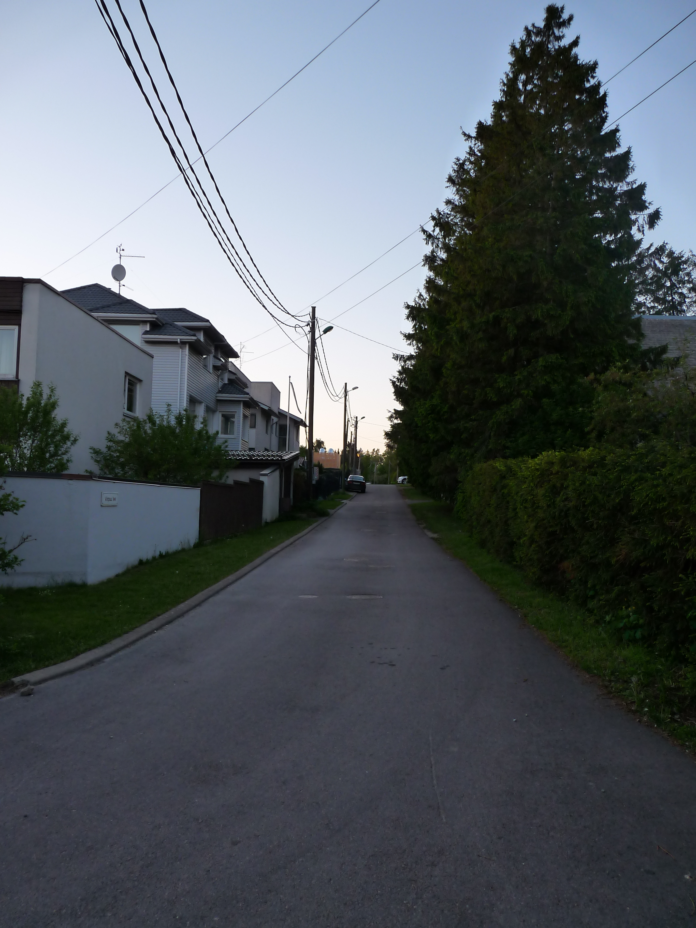 Viirpuu street in Tallinn, Estonia